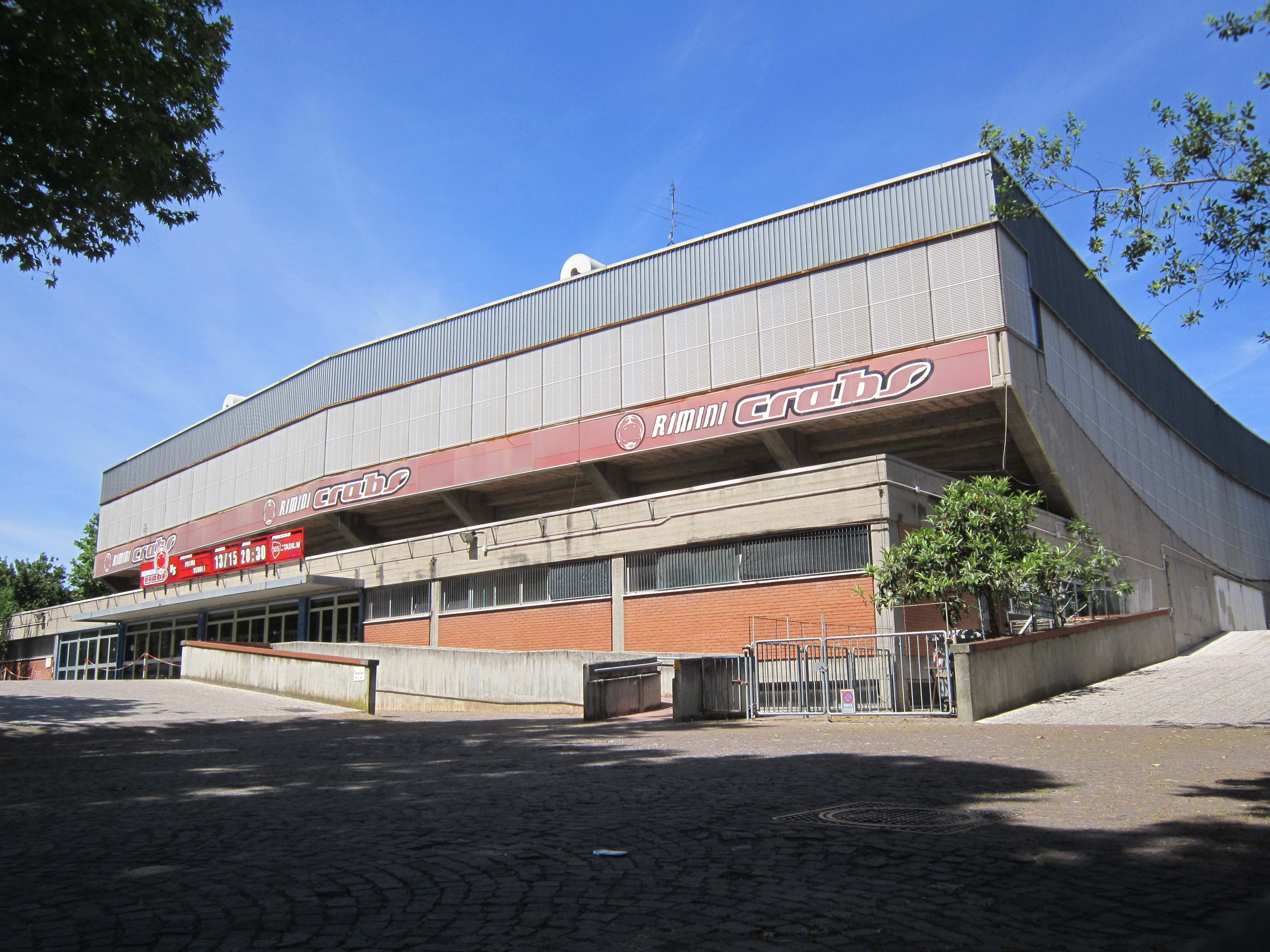 PalaFlaminio on May 2011.